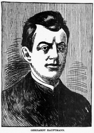 Gerhart Hauptmann in The Broad Ax newspaper, September 29, 1900.